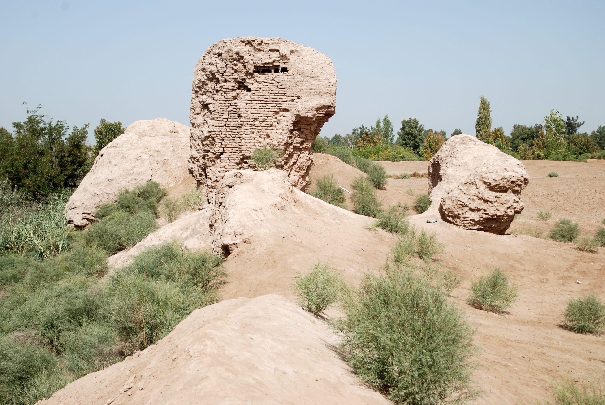 Qabodiyon, Kalai Mir, west side